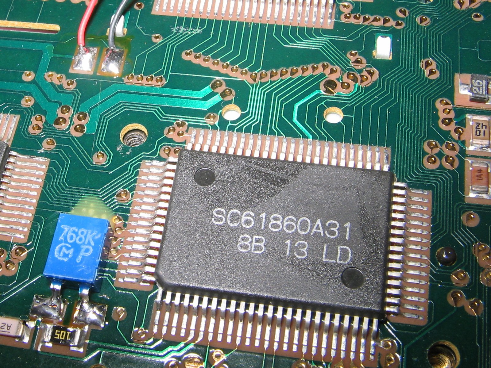 Sharp SC61860 CPU (version SC61860A31) from a Sharp PC-1403 calculator.